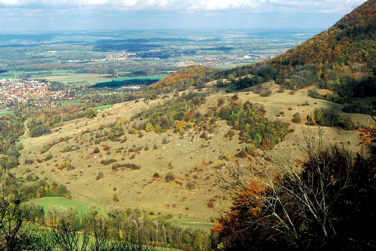 Eichhalde; Bissinger, nature reserve at the northern border of the Swabian Alb. Eichhalde is one of the most valuable heaths of all of the Swabian Alb. There are plants, which are rare and endangered species in Central Europe.